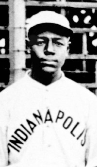 Photograph of Hall of Fame baseball player Ben Taylor